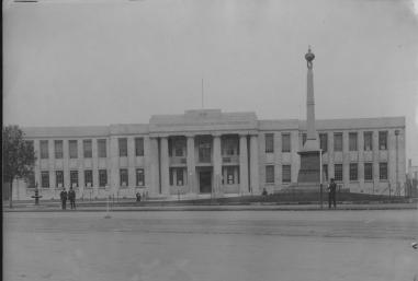 Early photo of Emily McPherson College (later part of RMIT).